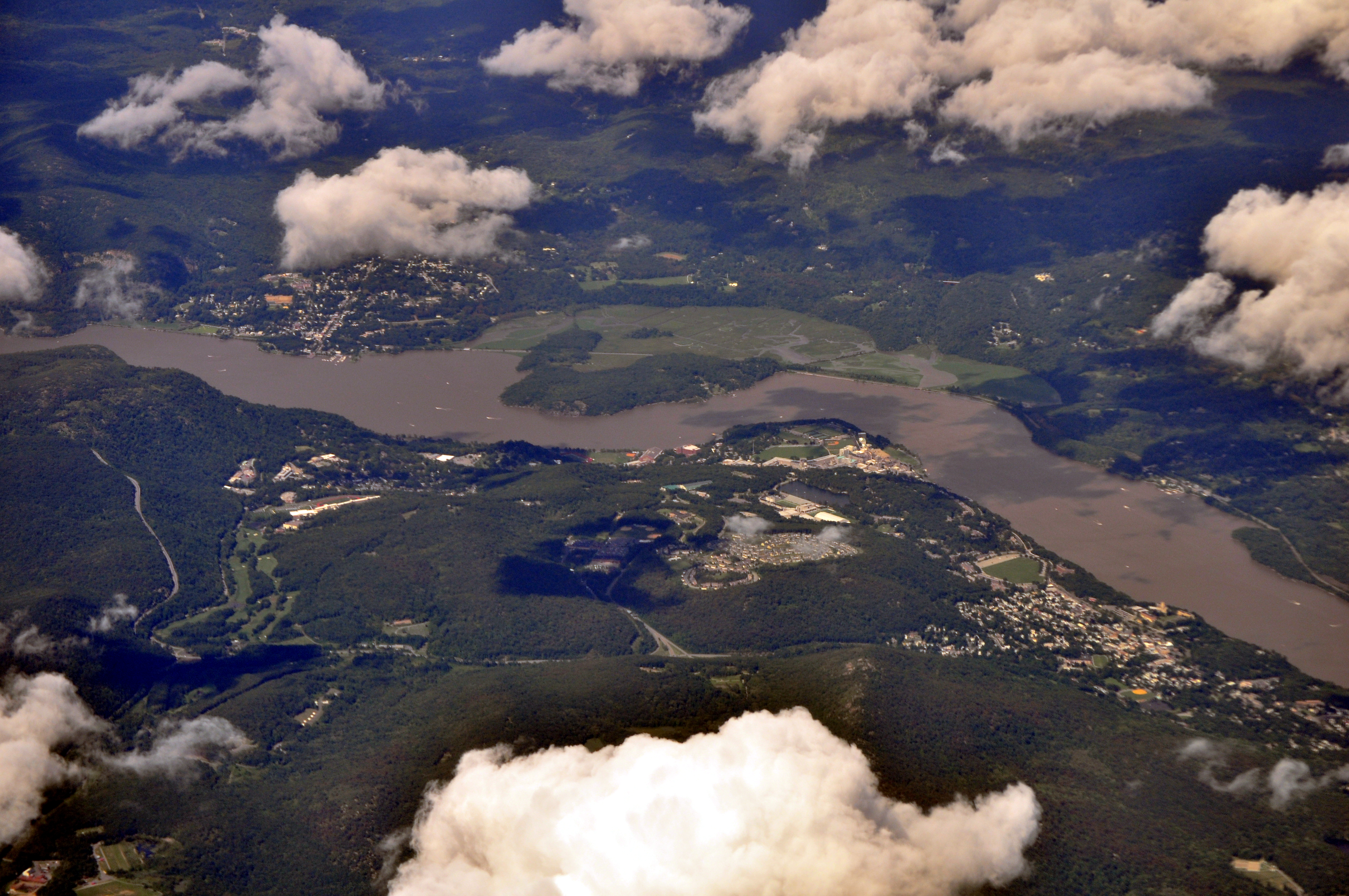 Aerial view of West Point (at center) in Orange County, New York and Cold Spring (at left) in Putnam County, New York on the Hudson River. Highland Falls at right, in Orange County.